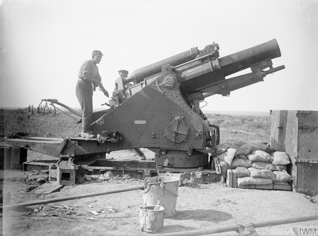 A 9.2 inch howitzer in action in Carnoy Valley during the Battle of the Somme.